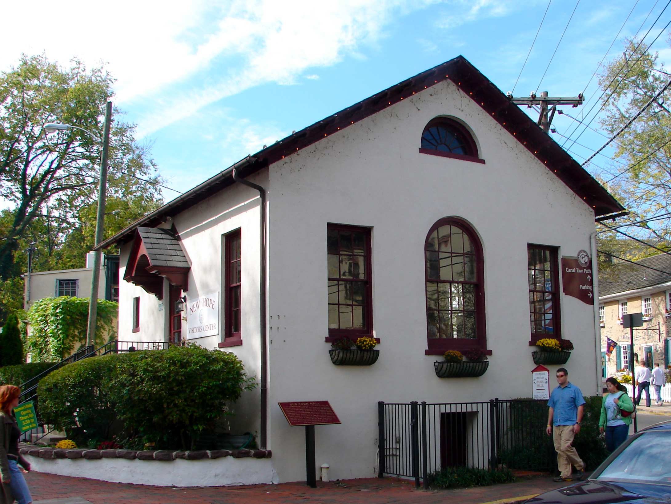 The Old Town Hall, in New Hope, Bucks County, Pennsylvania in the New Hope Village District, on the NRHP since March 6, 1985. The HD is bounded by Old Mill Road, Stockton Avenue, Ferry, Bridge, Mechanic, Randolph, Main, Coryell, and Waterloo Streets in New Hope